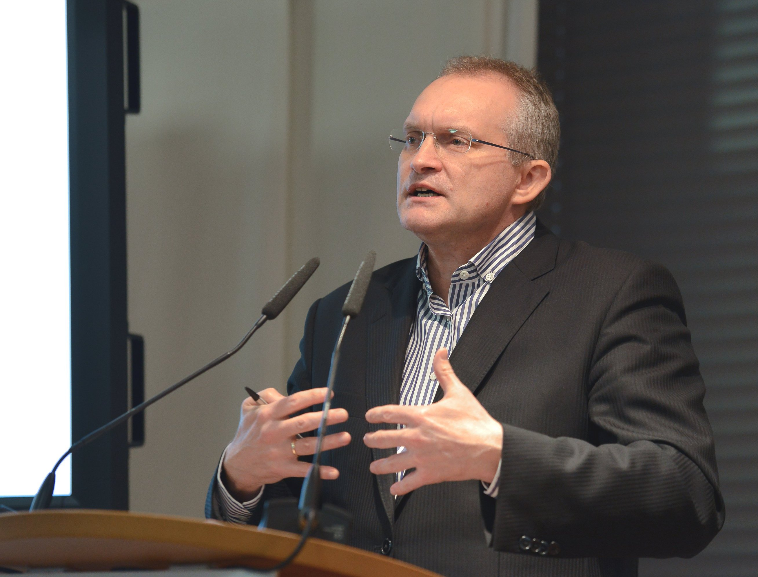 RWI Essen President Christoph M. Schmidt in Essen 2012